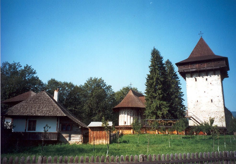 Monastery Humor - Church and watch tower